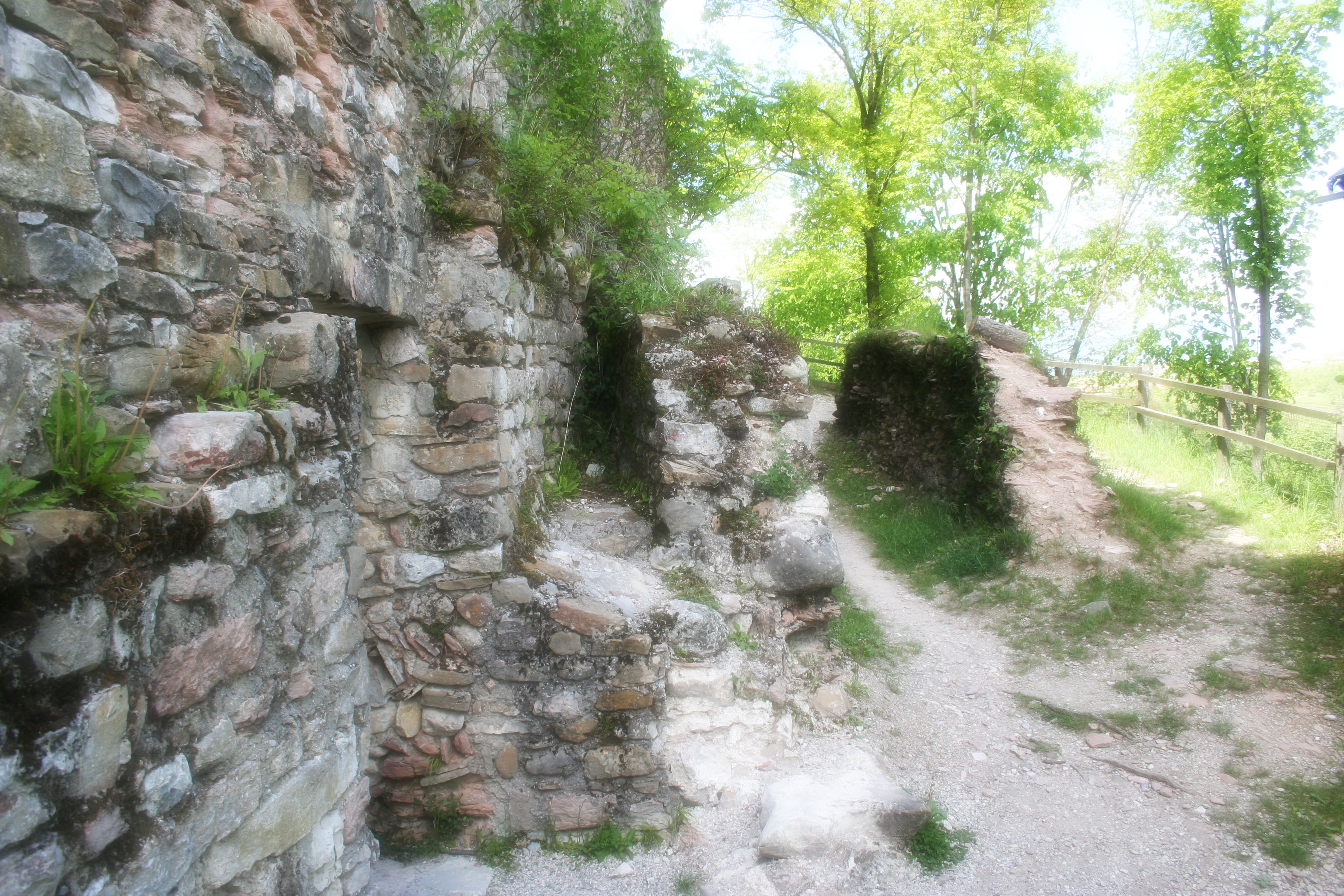 Ruins of the castle of Zumelle, Belluro, Veneto, Italy.